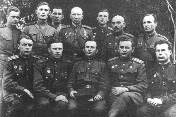 Hazi Aslanov with officers of the 35th tank brigade